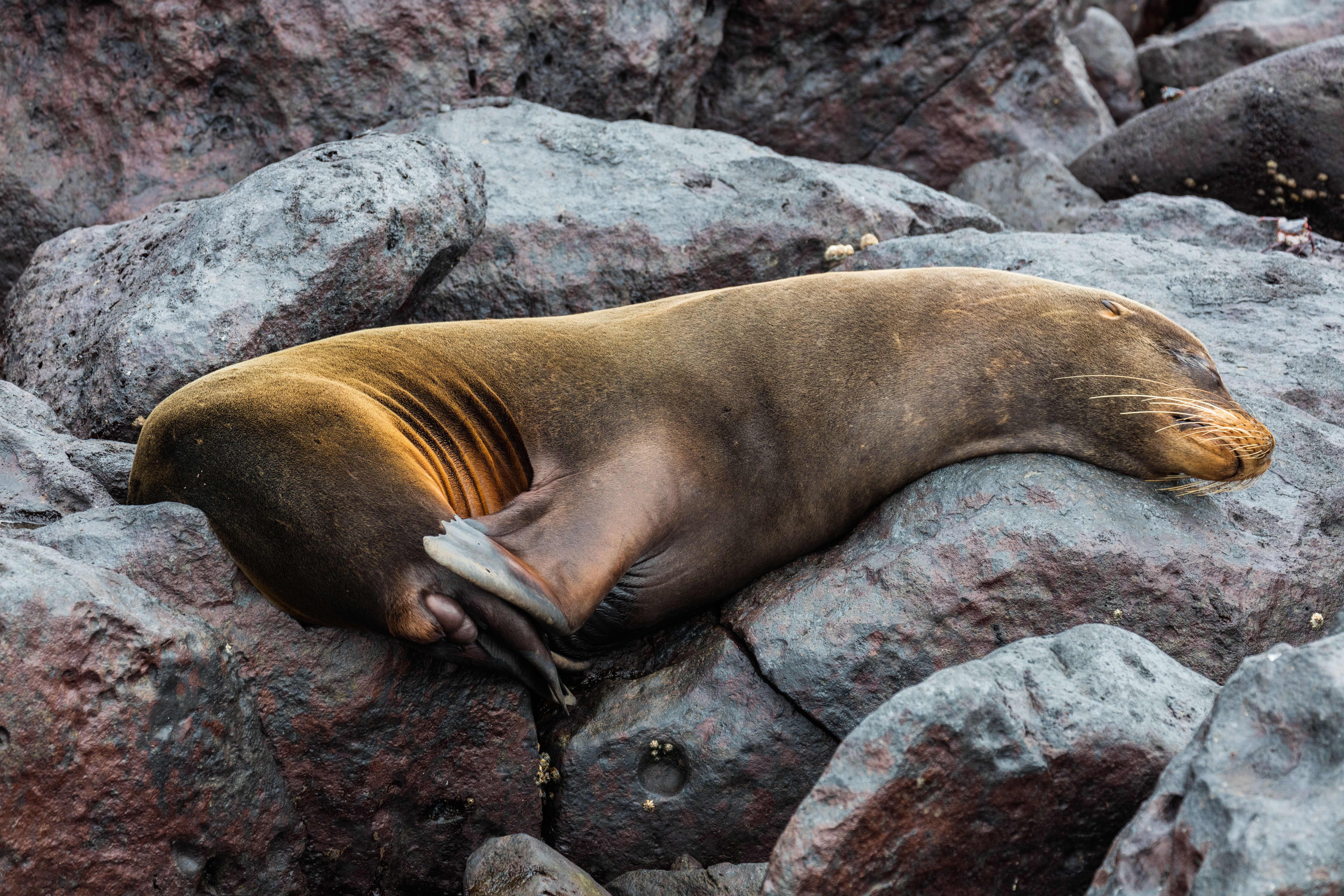 Sea lion (Zalophus californianus wollebaeki), Lobos island, Galapagos islands, Ecuador